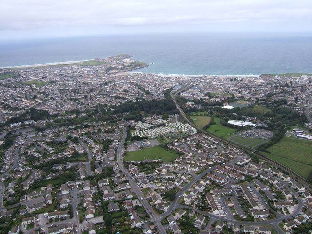 Newquay, Corwall RAF Family Day flights over Newquay, in a Sea King helicopter. I was lucky to be picked, to kneel by the open side door of this aircraft. What an experience, to look straight down, with nothing between you and the ground below.